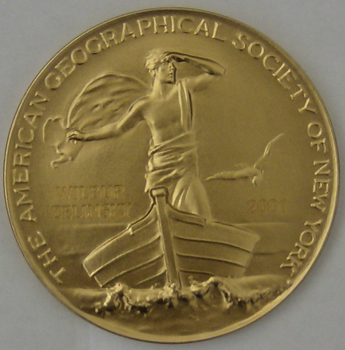 McCullum medal - back